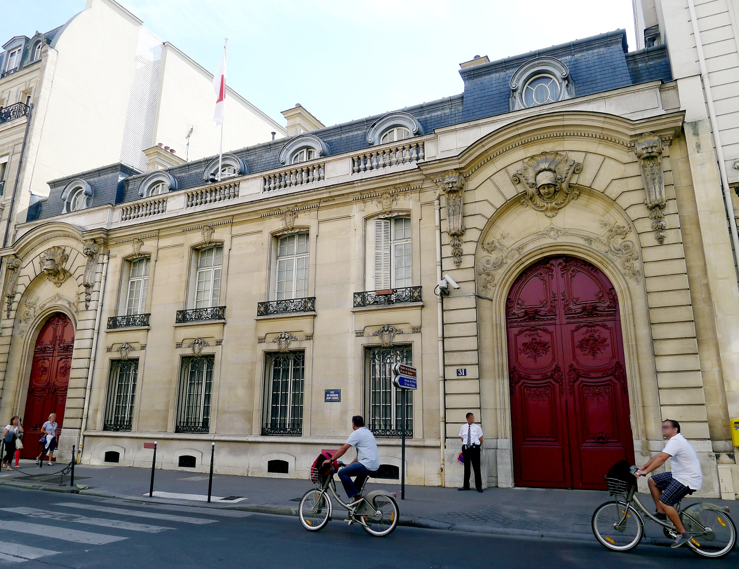 Hôtel Pillet-Will, Faubourg-Saint-Honoré street (n°31) - Paris - Residence of the Japanese Ambassador to France